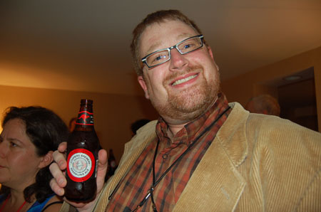 American science fiction author Ken Scholes, photographed by Catriona Sparks